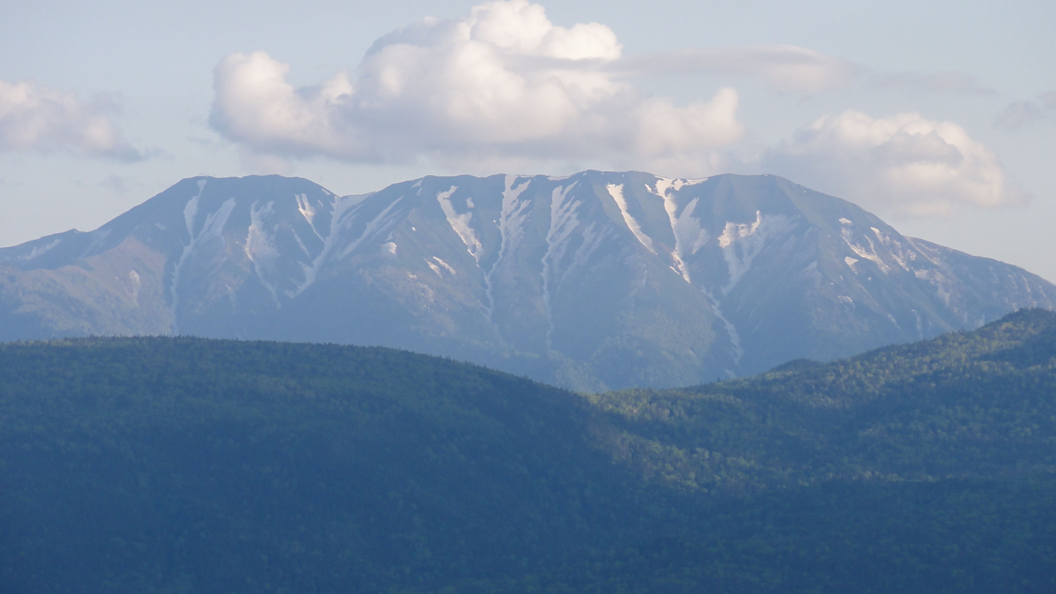 Mount Upepesanke (Upepesanke-yama) seen from the North in Hokkaido prefecture, Japan.